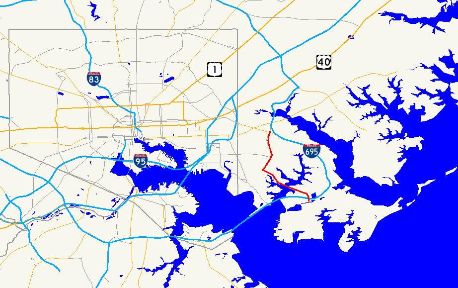 Map of Maryland Route 157